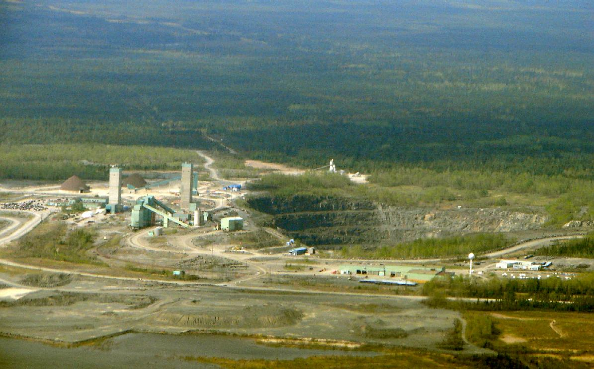 Kidd Mine, near Timmins, Ontario, Canada